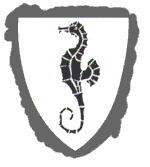 Emblem of 5th U-boat flotillia of Kriegsmarine